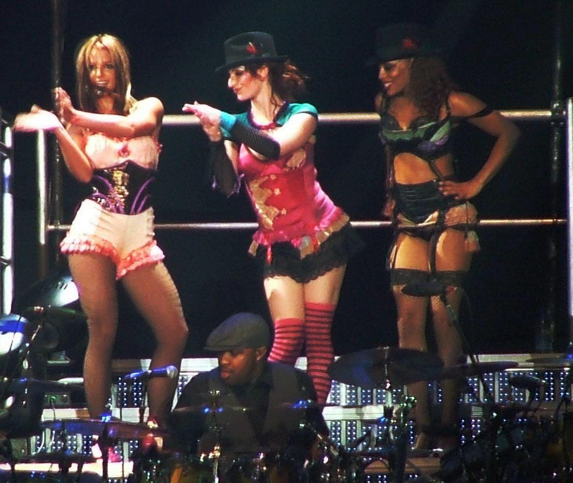 Britney Spears performing during her Onyx Hotel tour in 2004